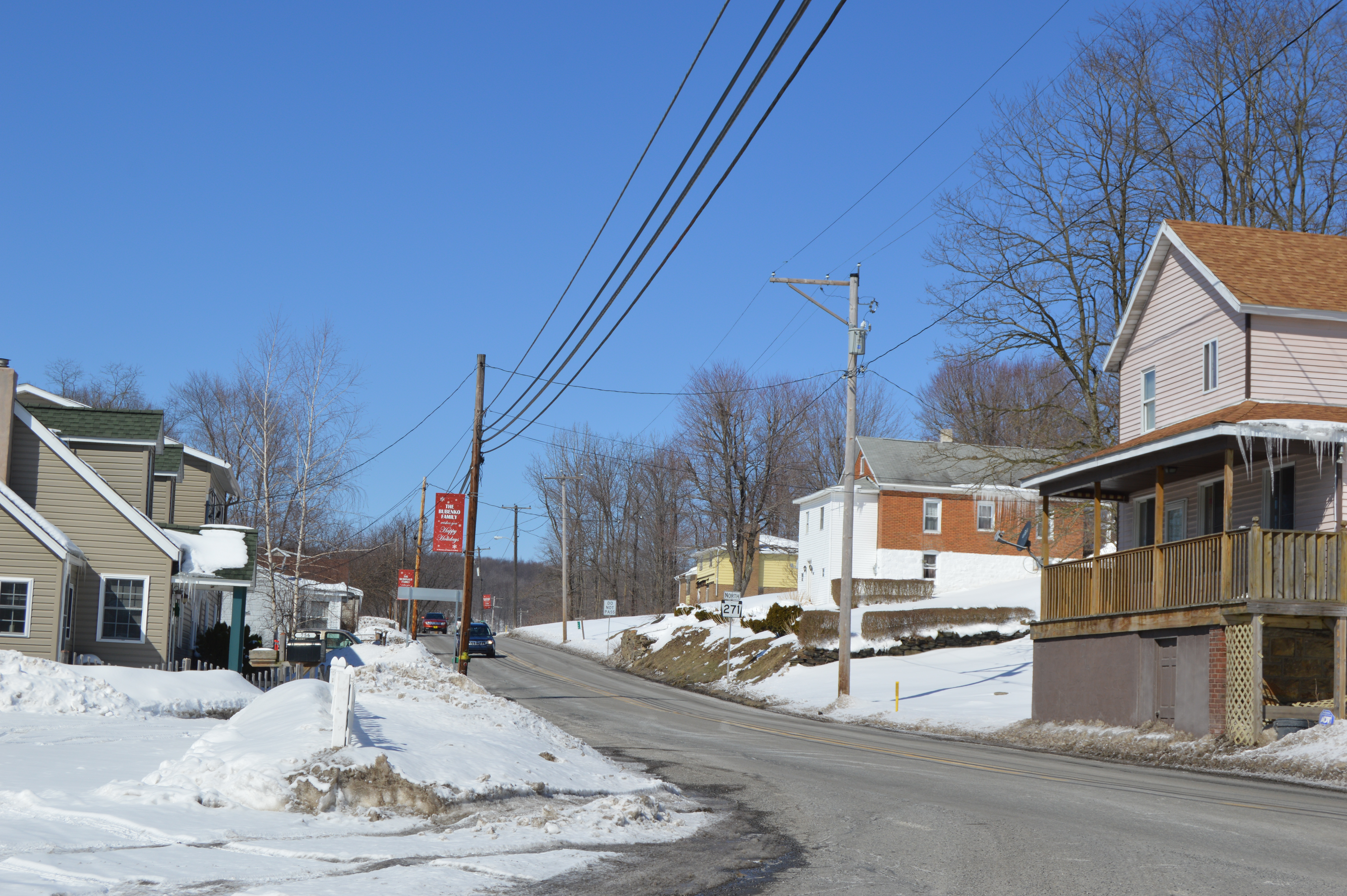 Looking northwest on Pennsylvania Route 271 from the Plank Road intersection in the community of Twin Rocks in Blacklick Township, Cambria County, Pennsylvania, United States.